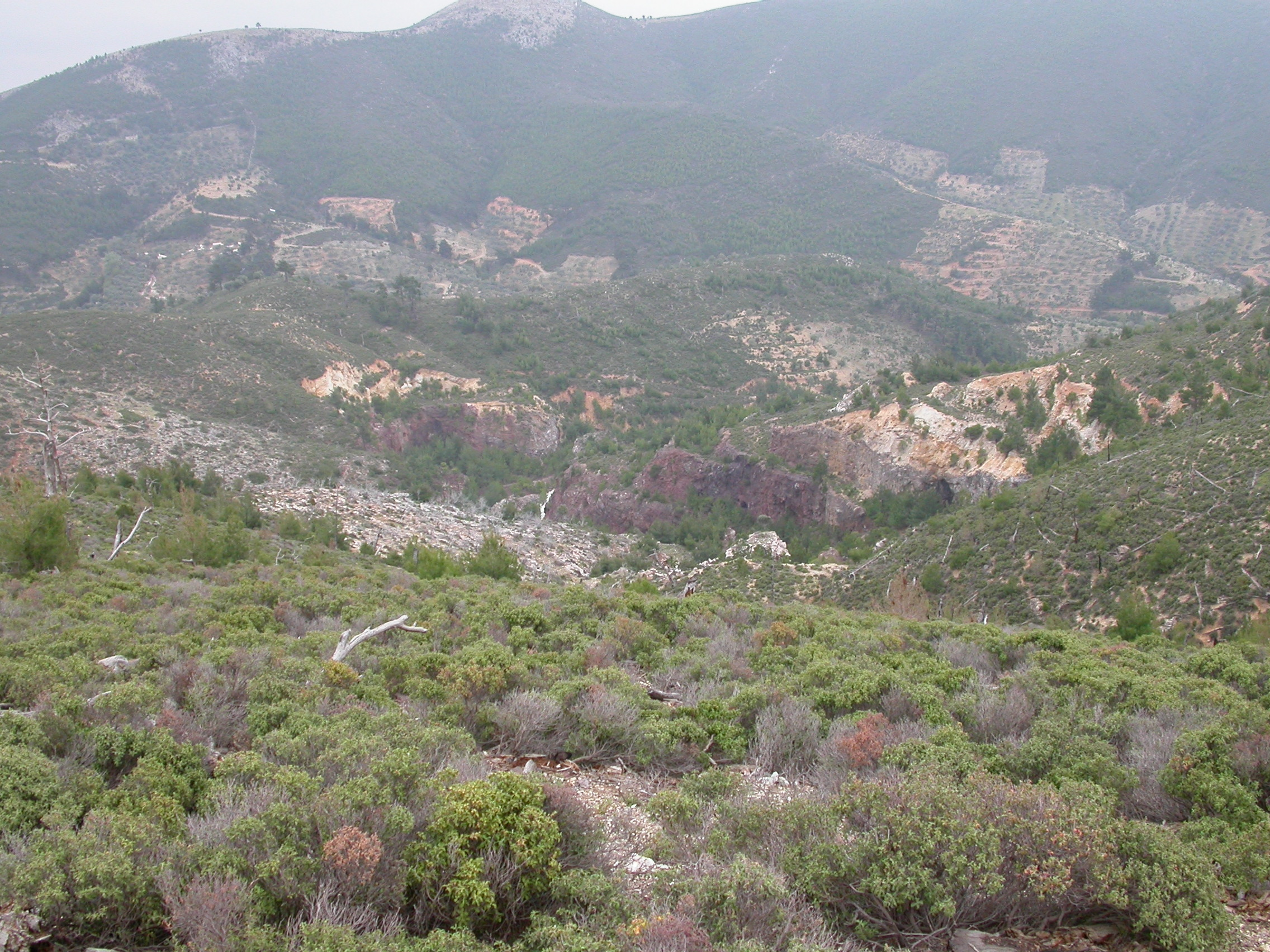 Iron Mine of Mavrolakkas, Thasos.